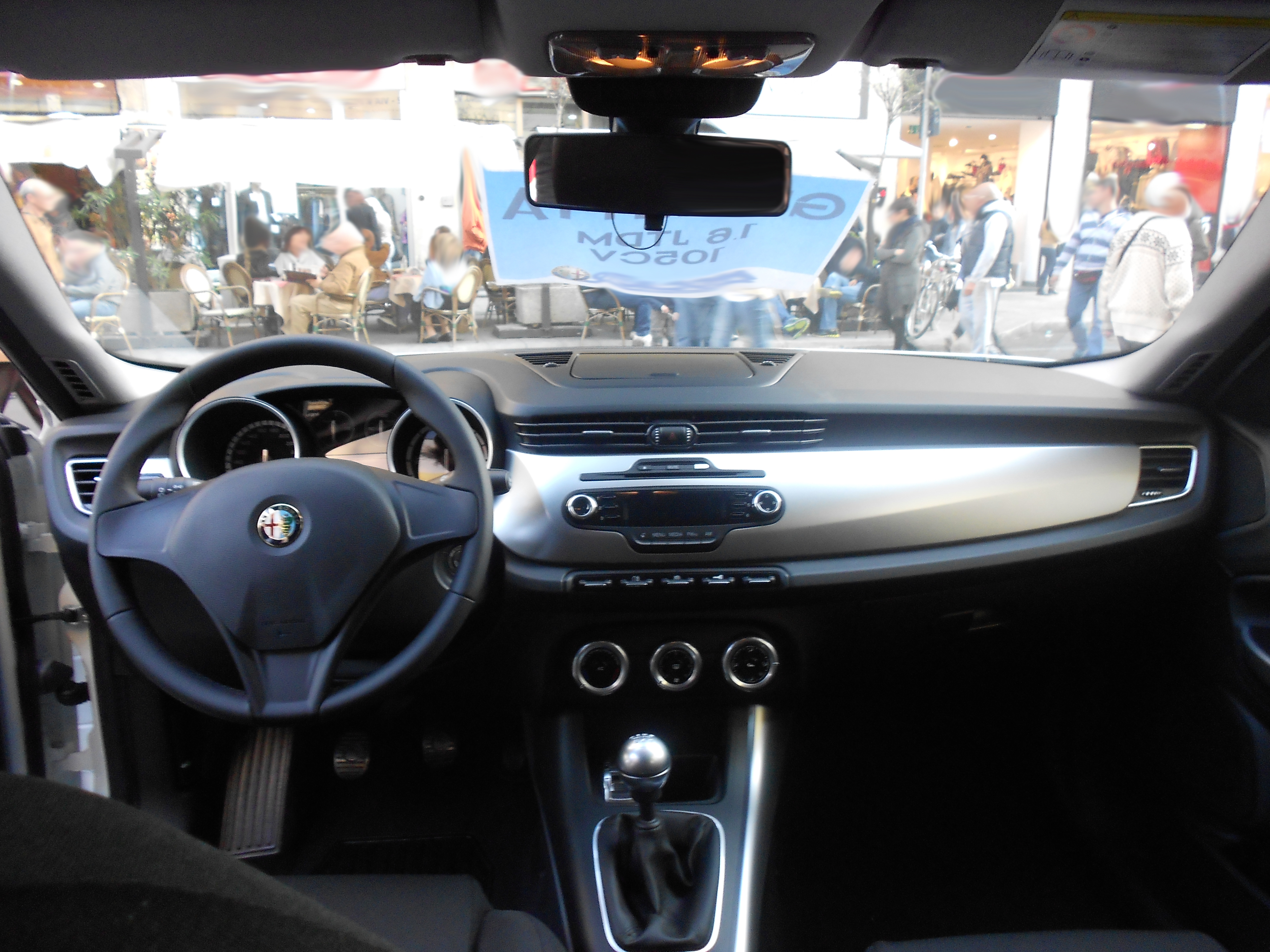 Interior of Alfa Romeo Giulietta, foto make at Milan, Corso Buenos Aires Modello: Giulietta Costruttore: Alfa Romeo Gruppo: Fiat Group